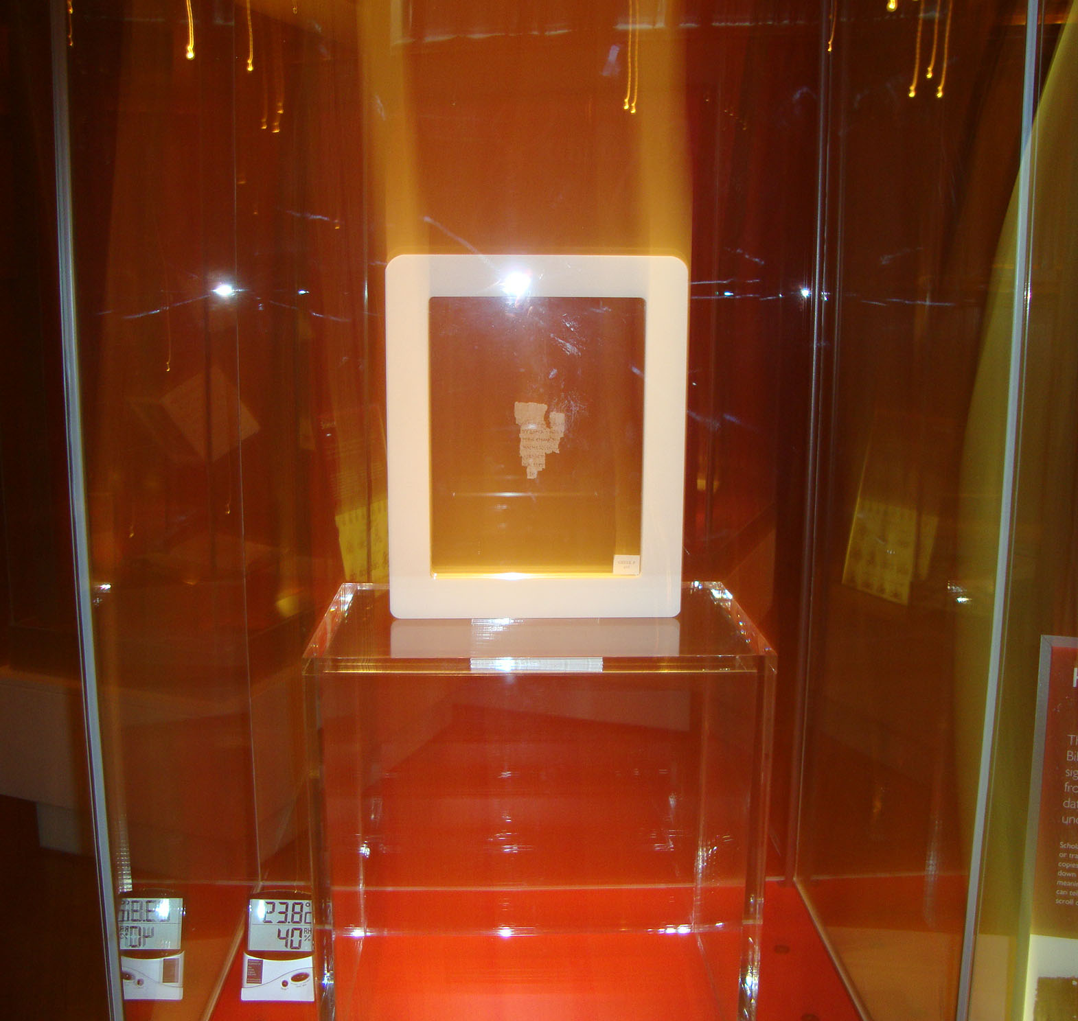 Rylands Library Papyrus P52